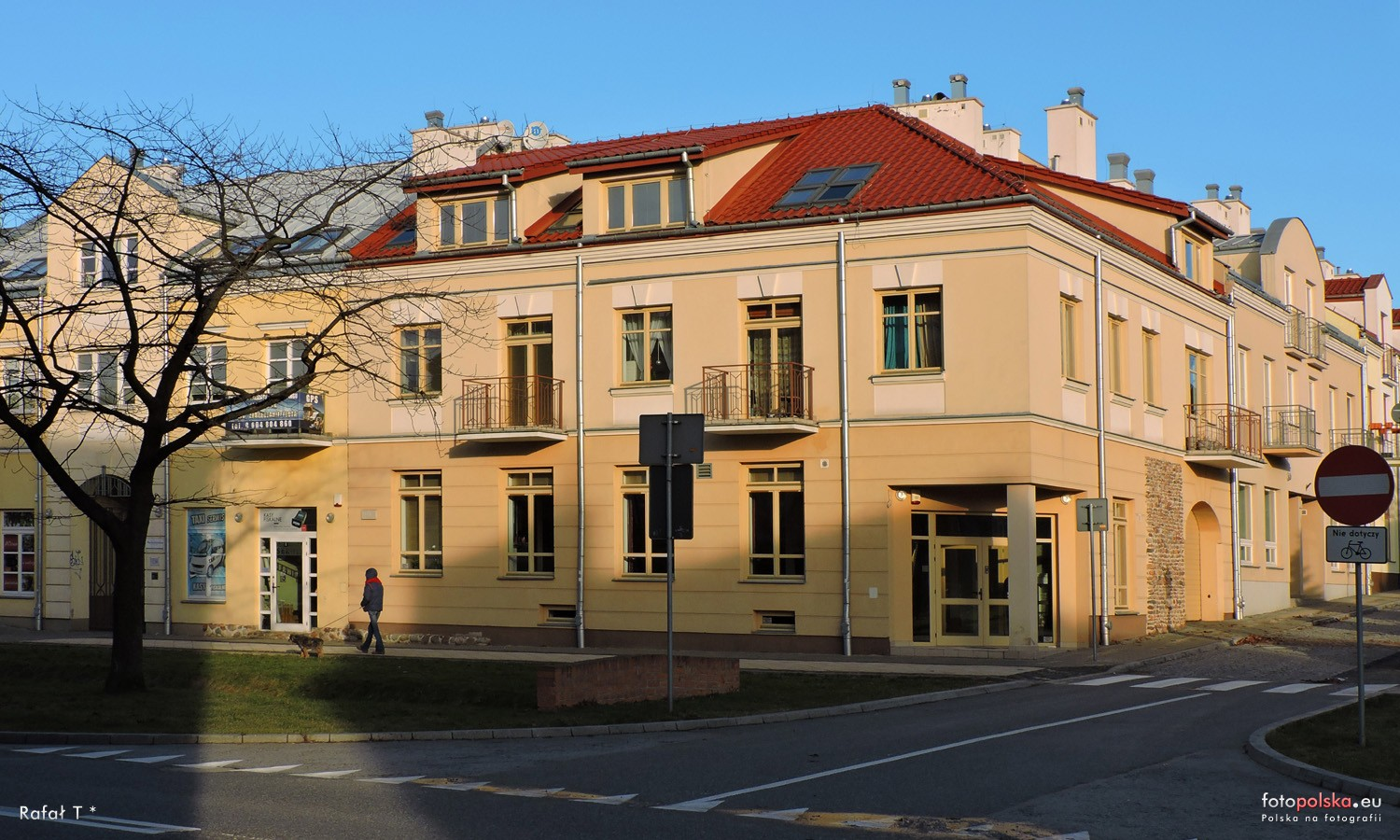 16/18 Wałowa St, Radom, Poland